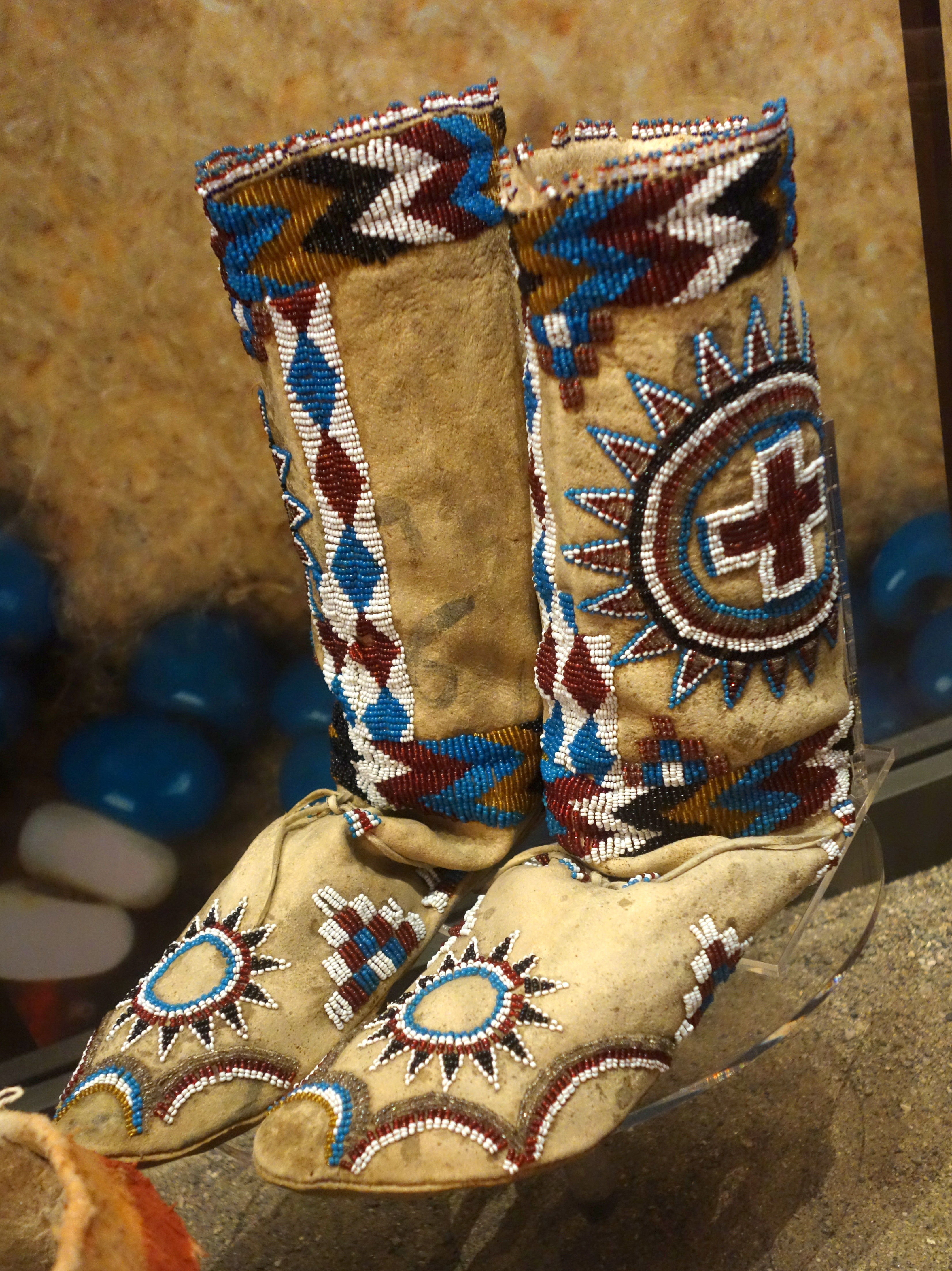 Exhibit in the Bata Shoe Museum, Toronto, Ontario, Canada. This item is old enough so that its design is in the public domain. The museum permitted photography without restriction.